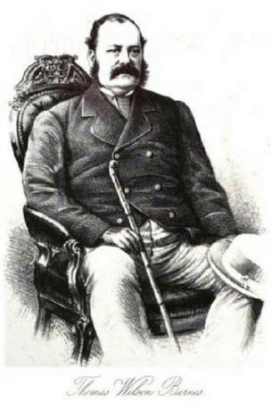 Thomas Wilson Barnes (1825-1874), British chess master